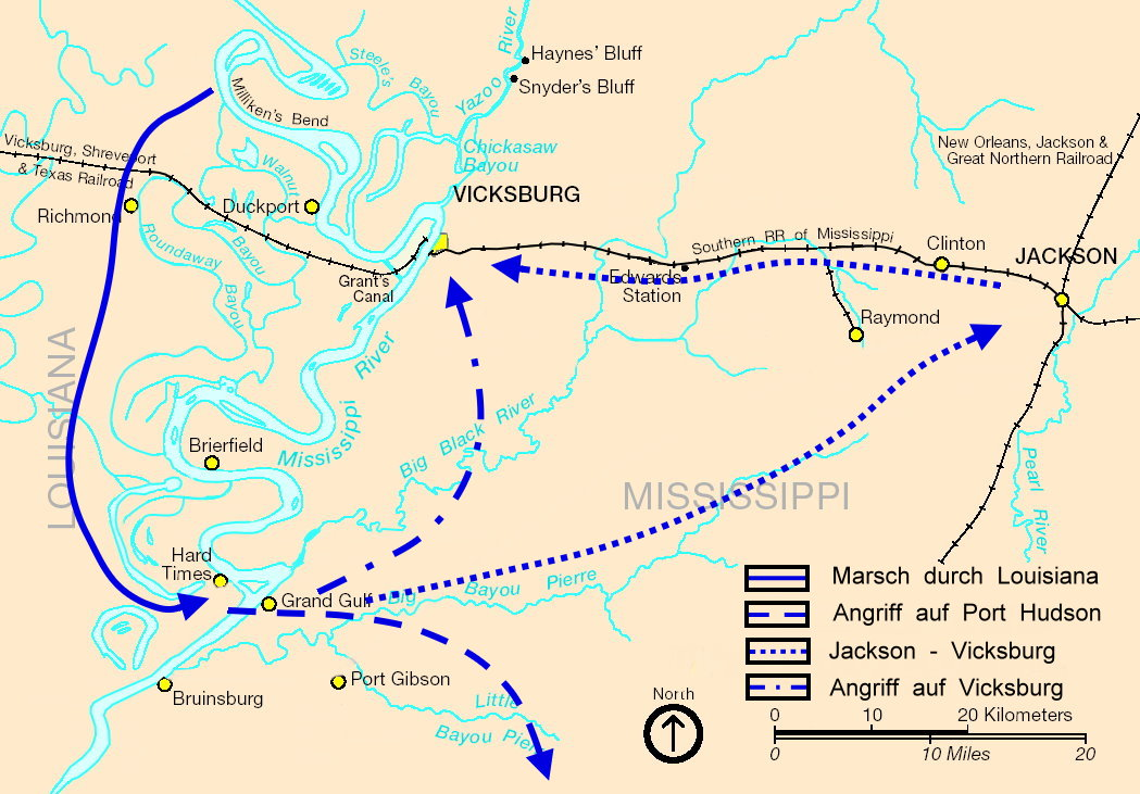 Grants possible operations after the invasion of Mississippi